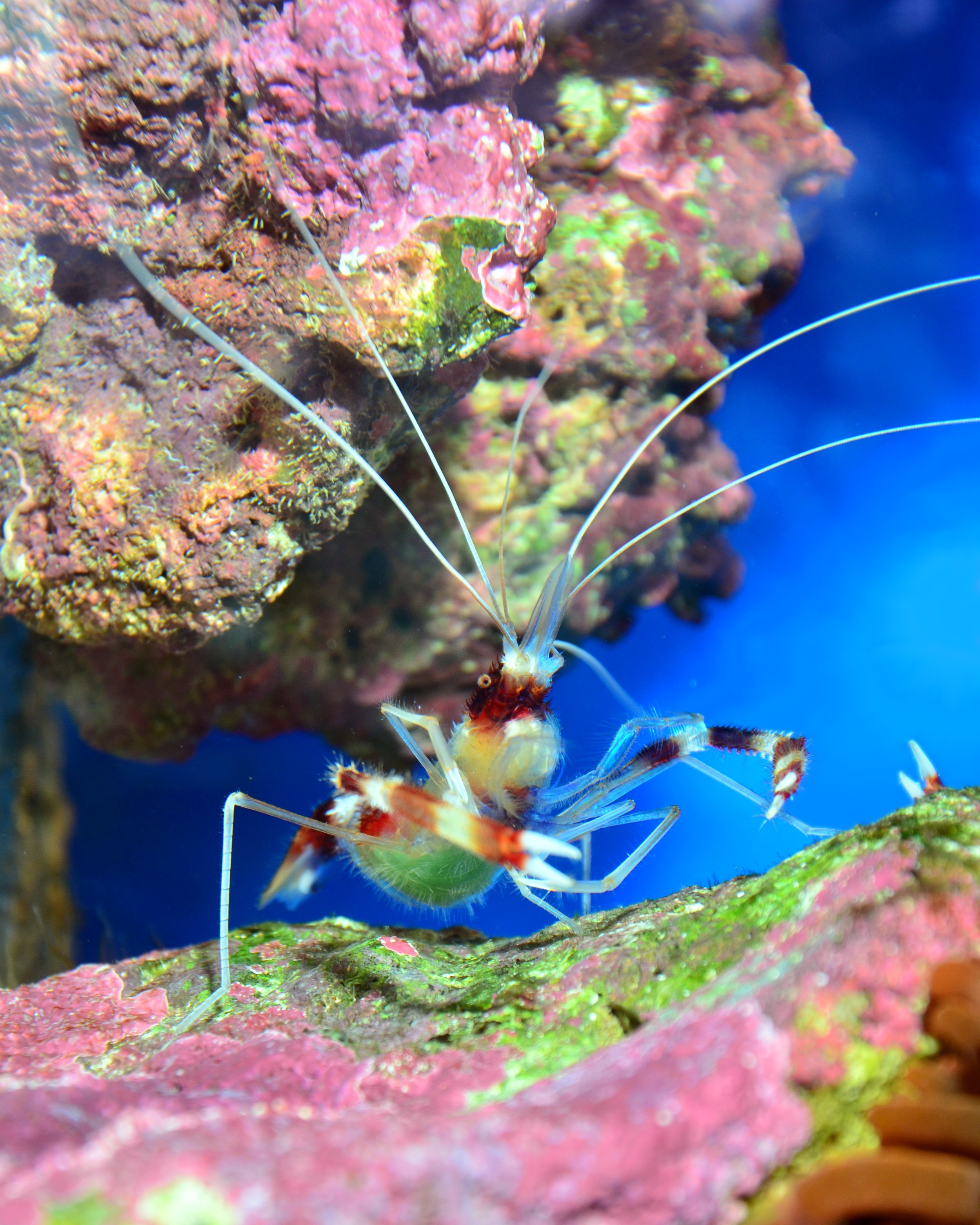 Banded coral shrimp